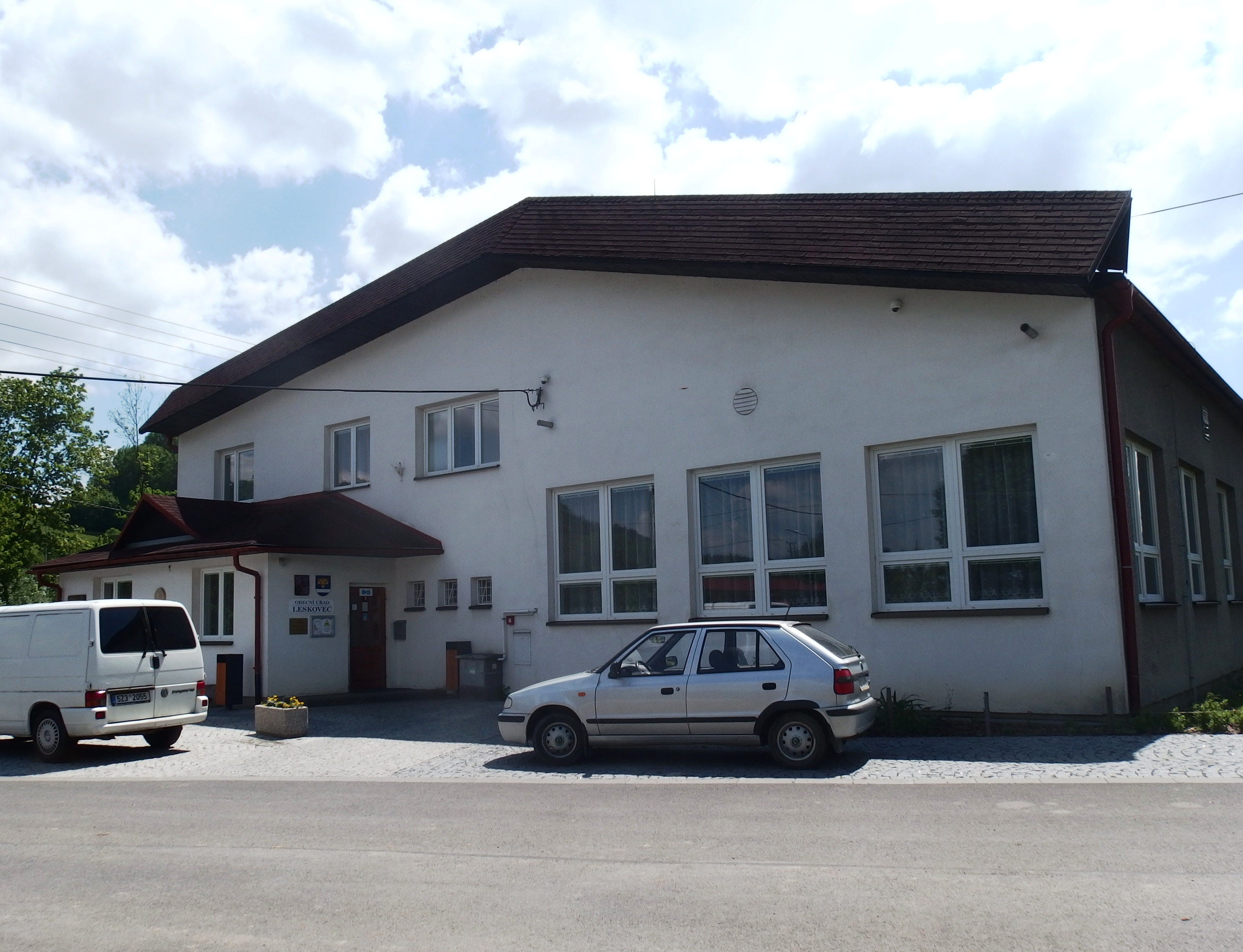 Leskovec, Vsetín District, Czech Republic.